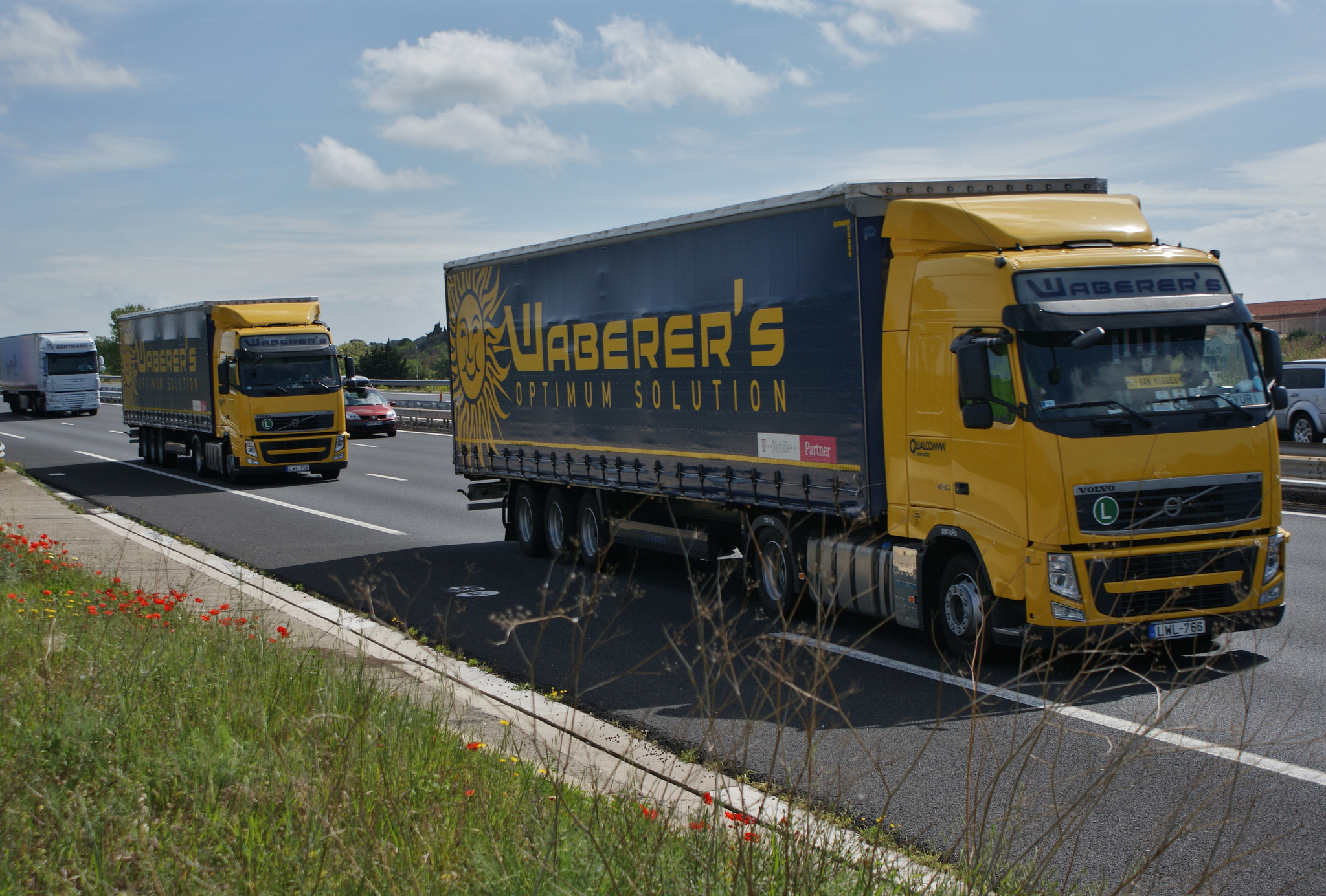 Waberers Volvo FH 420